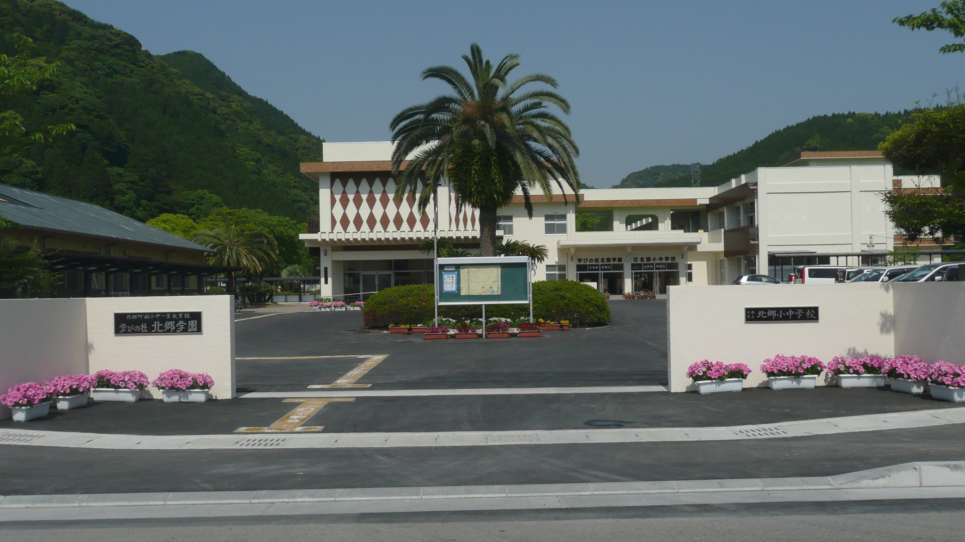 Kitago Elementary & Junior High School (Kitago, Nichinan City, Miyazaki, Japan)